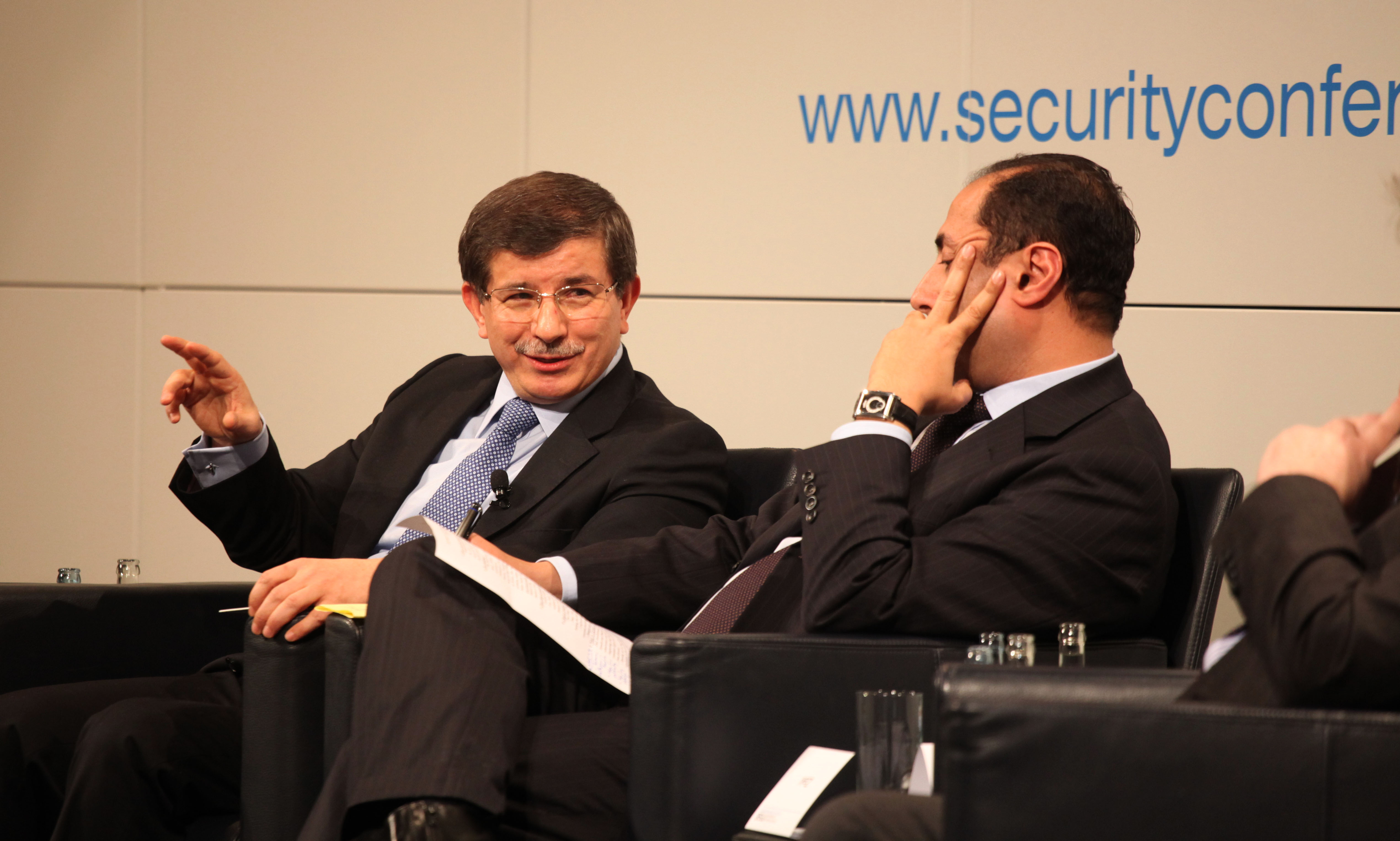 46th Munich Security Conference 2010: Prof. Dr. Ahmet Davutoglu, Minister of Foreign Affairs, Republic of Turkey, and Hossam Zaki (ri), Senior Advisor to the Foreign Minister, Cairo.